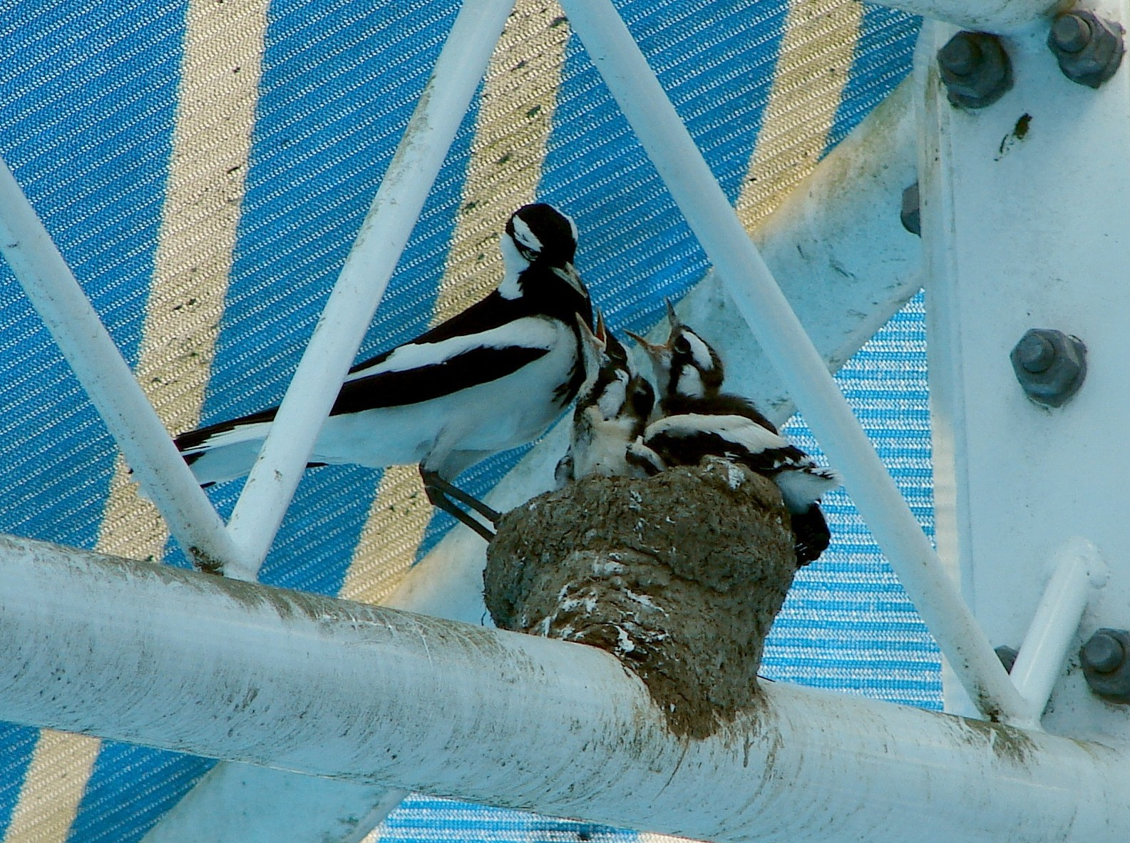 Peewee (Magpie-lark) Grallina cyanoleuca built the muddy nest under the cover of the public swimming pool in Brisbane suburban area, Australia. Both parents look after the chicks. These chicks are about two weeks old.